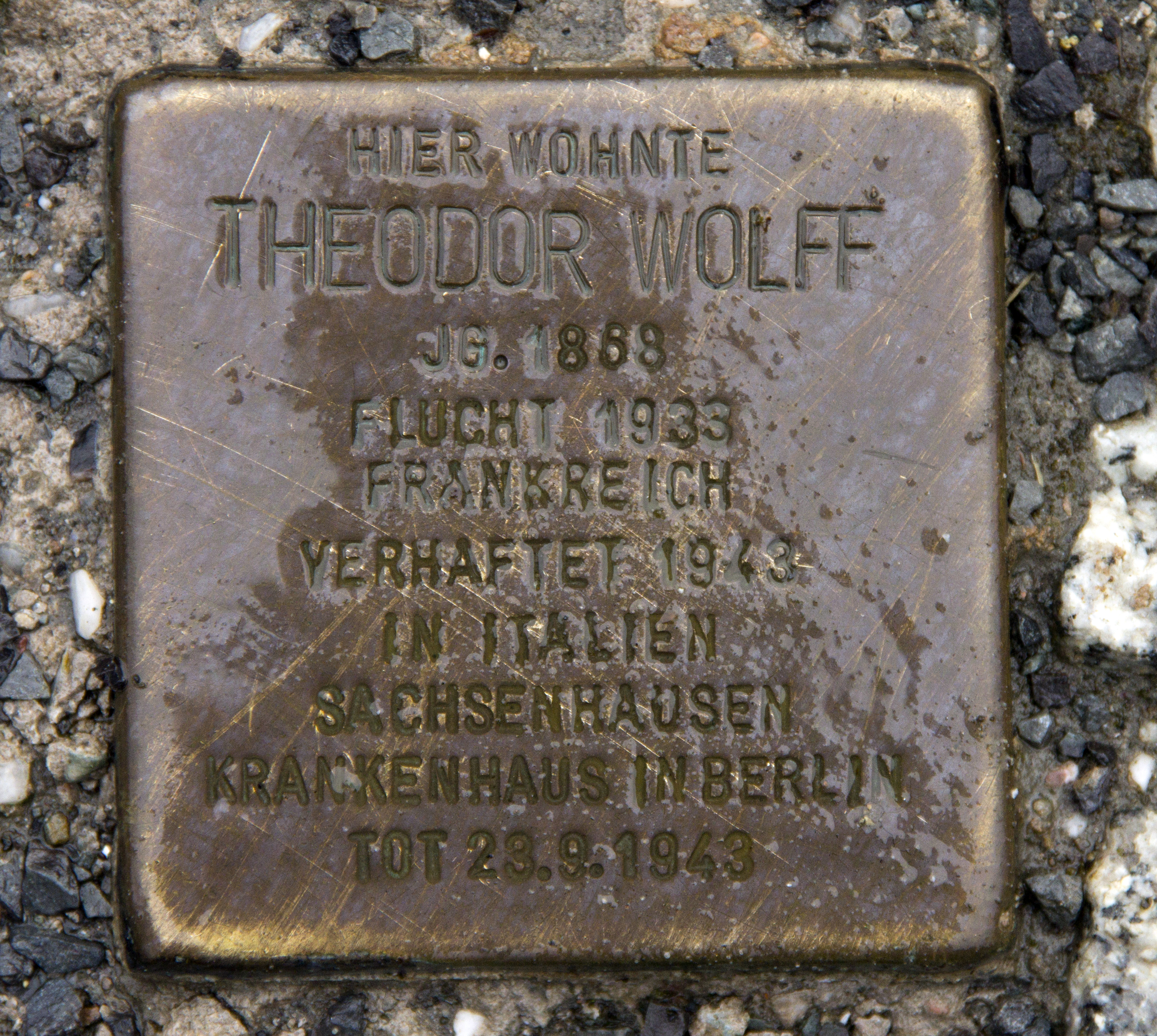 "Stolperstein" (stumbling block), Theodor Wolff, Hiroshimastraße 19, Berlin-Tiergarten, Germany